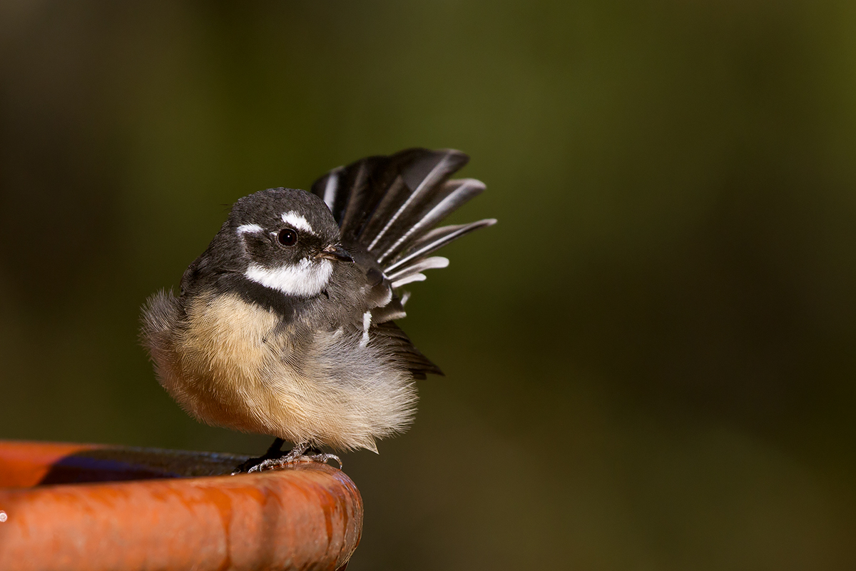 Strangways Vic.